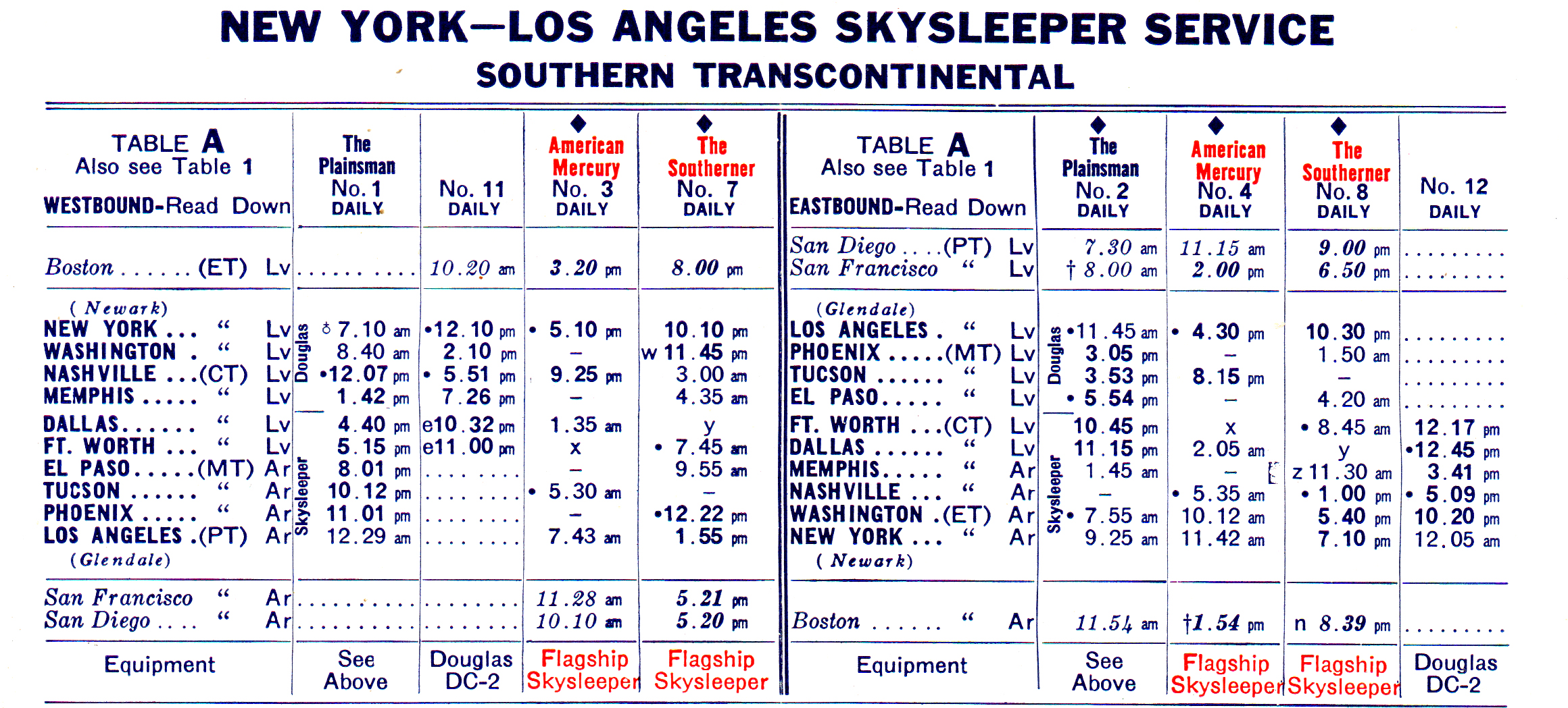 American Airlines New York-Los Angeles service schedules in 1939